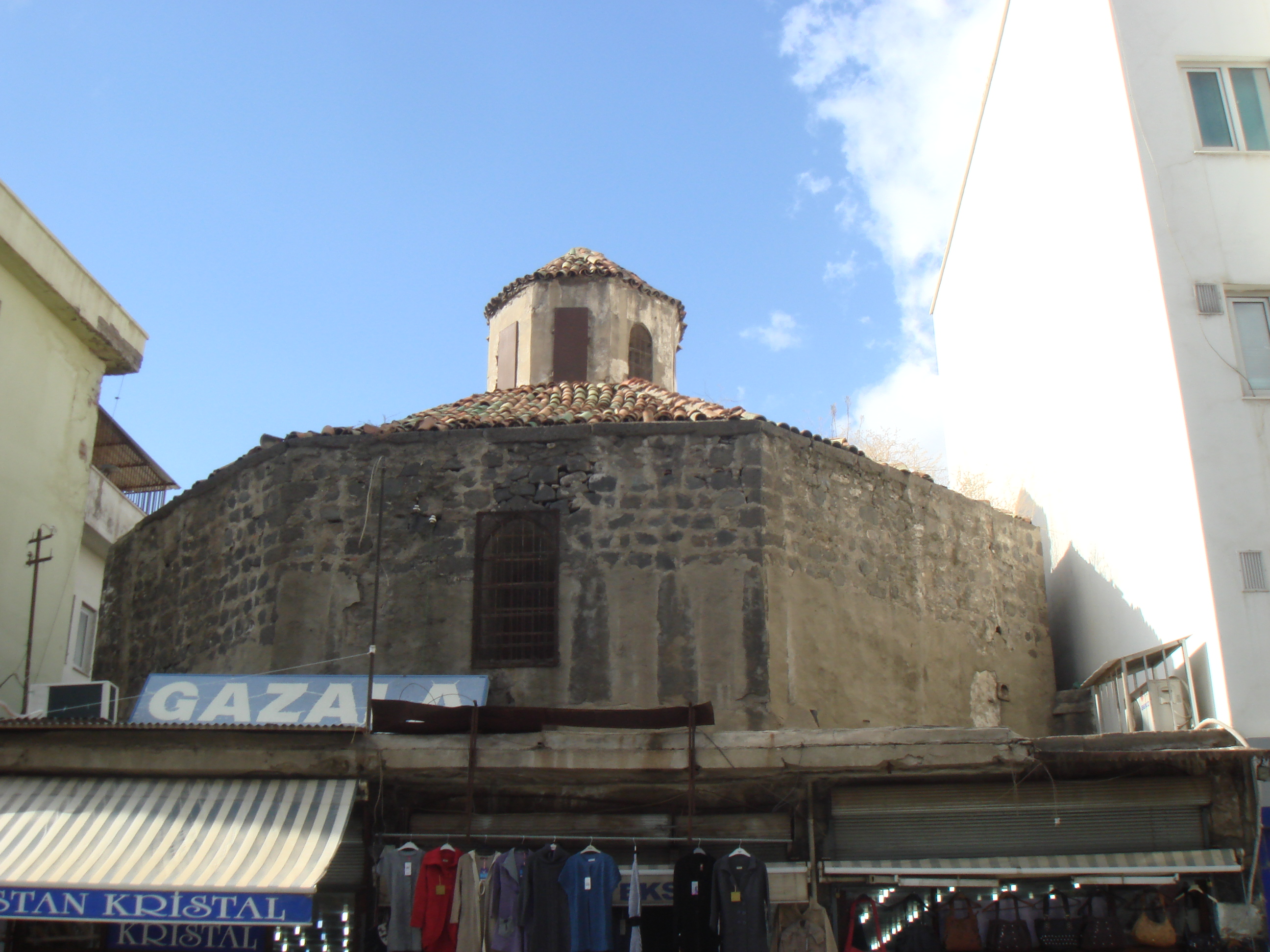 Wahab Agha Public Bath, Diyarbakır, Diyarbakır Province, Turkey Kurdî: Hemama Wehab Axa, Amed, Tirkiye, 2009.